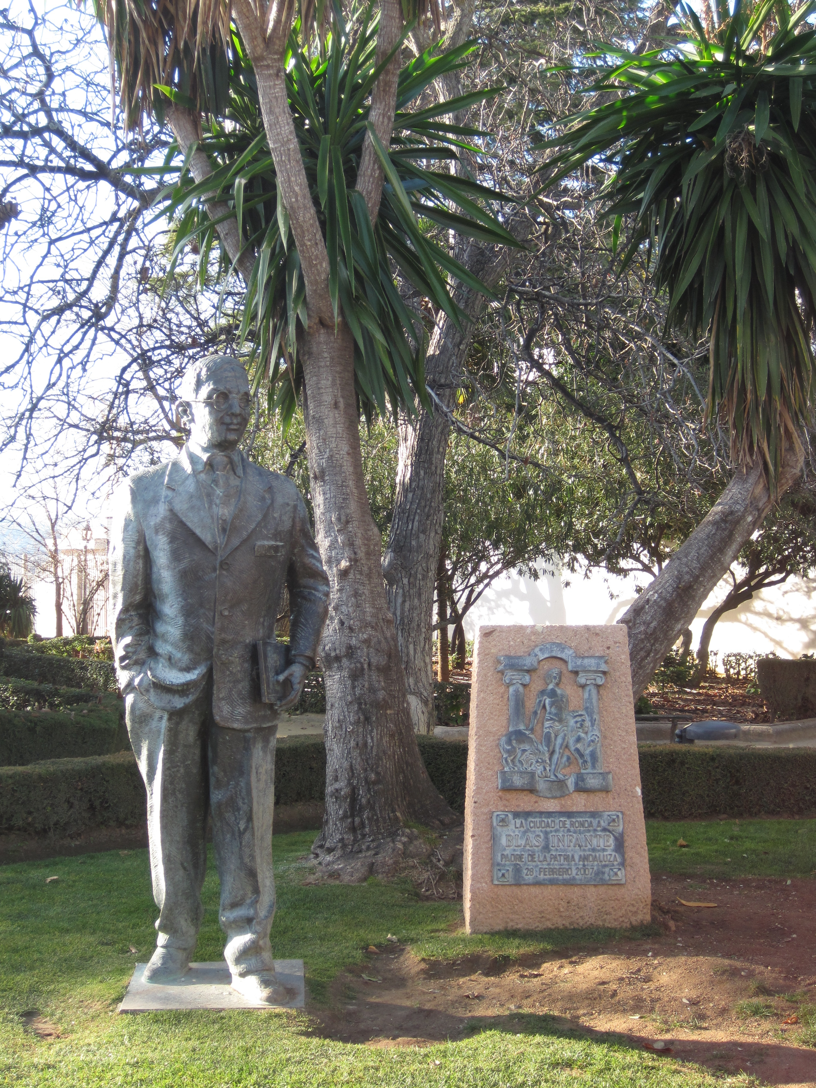 Statue of Blas Infante, Ronda, Spain